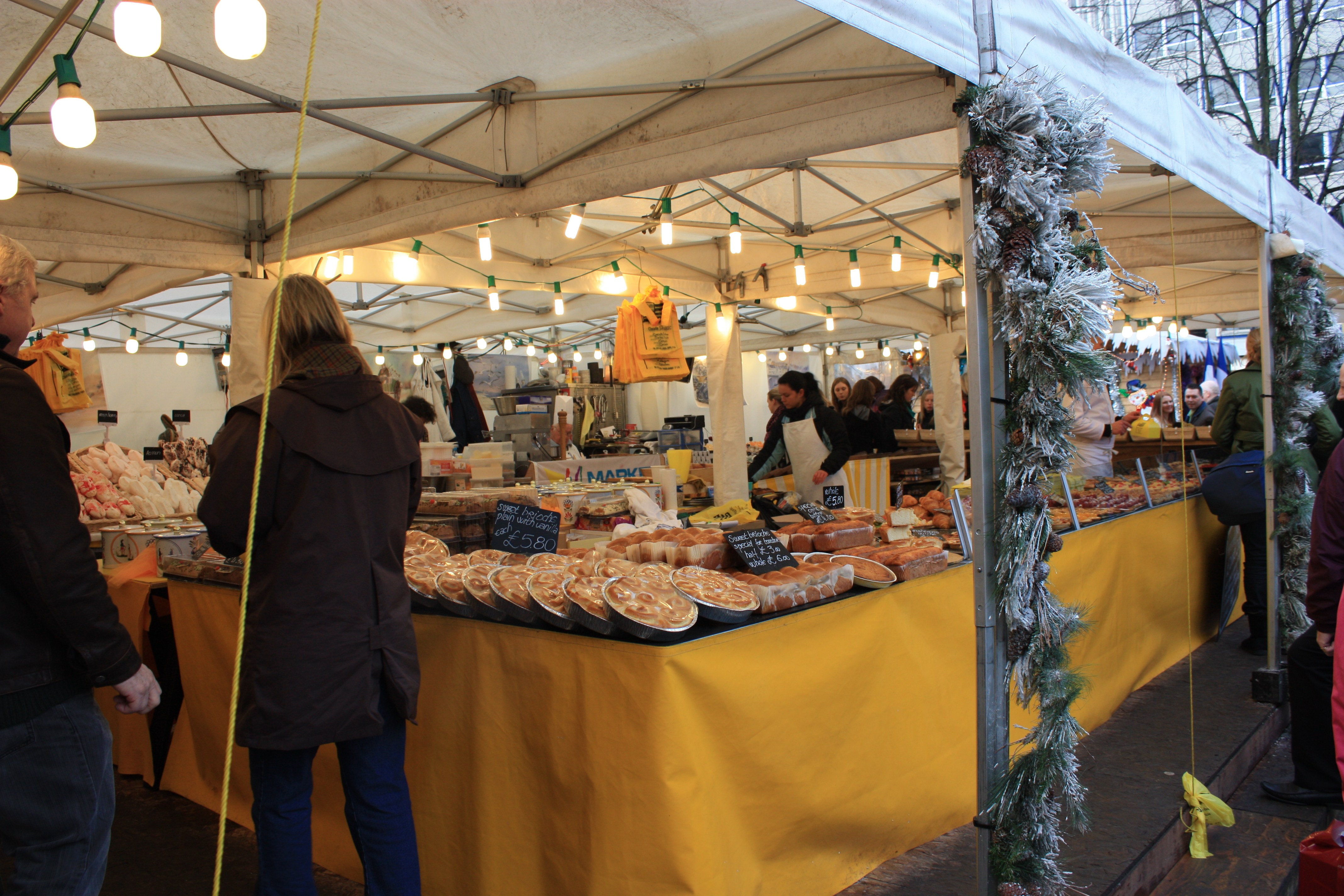 Belfast Christmas Continental Market, City Hall, Belfast, Northern Ireland, December 2009